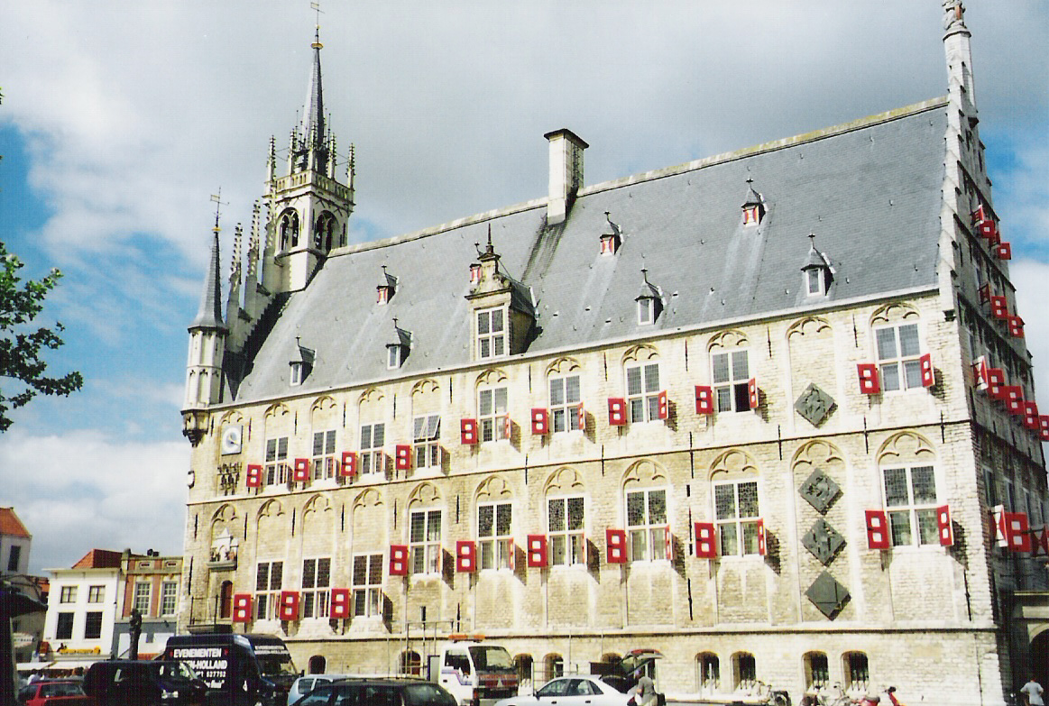 City hall of Gouda